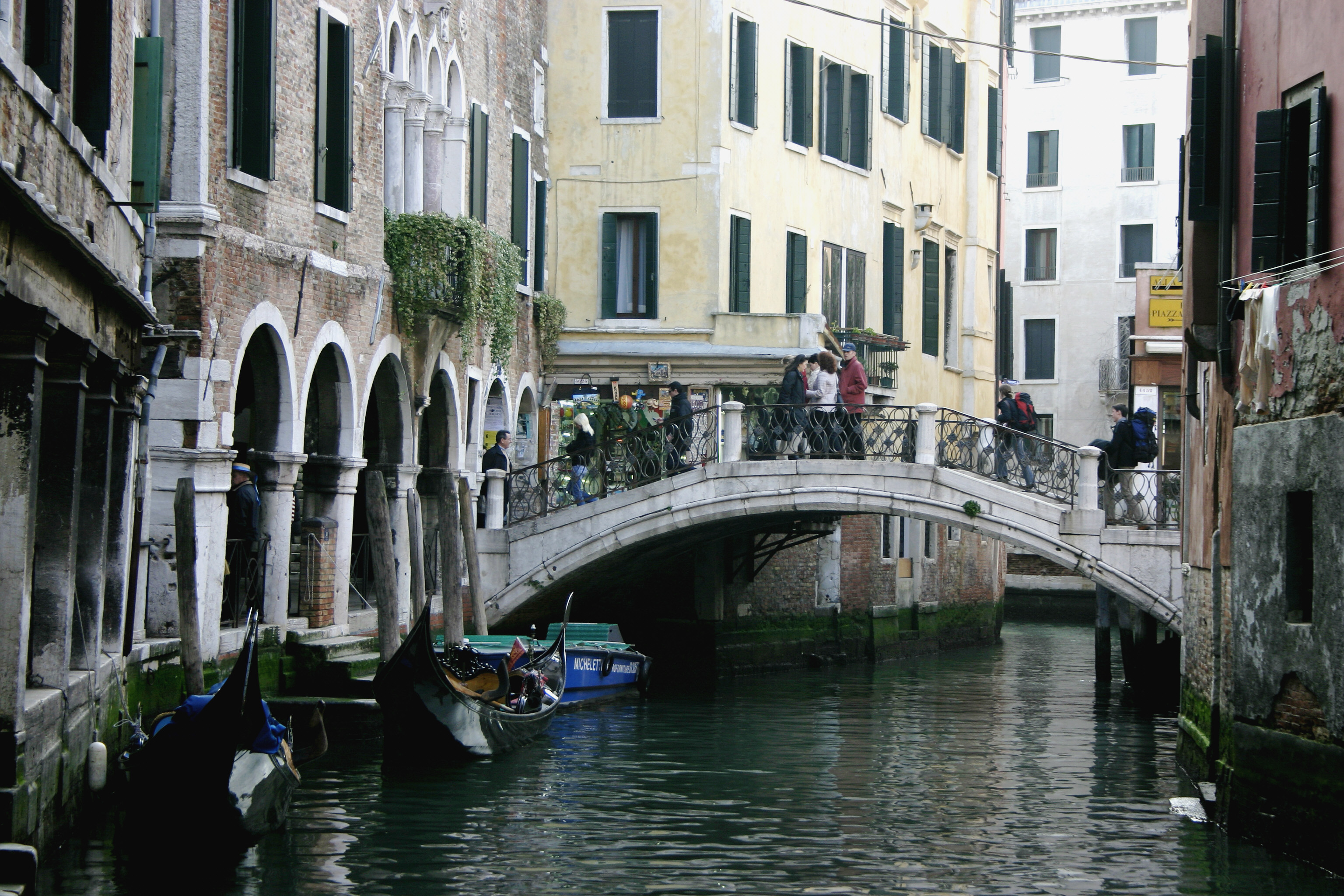 Venice – Ponte S. Apostoli